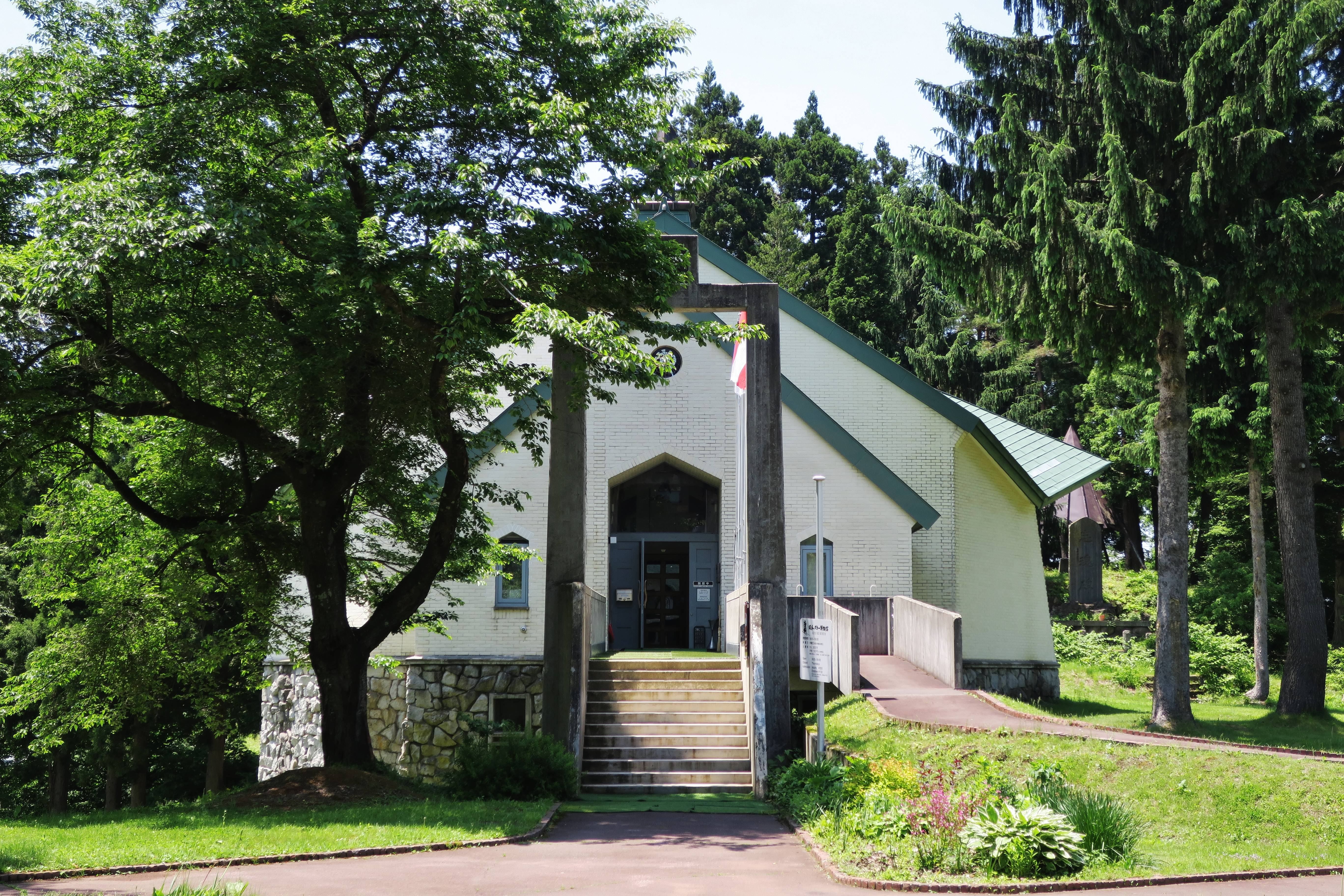 Japan Ski Museum (Nozawaonsen, Nagano).